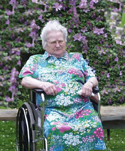 Grandma White